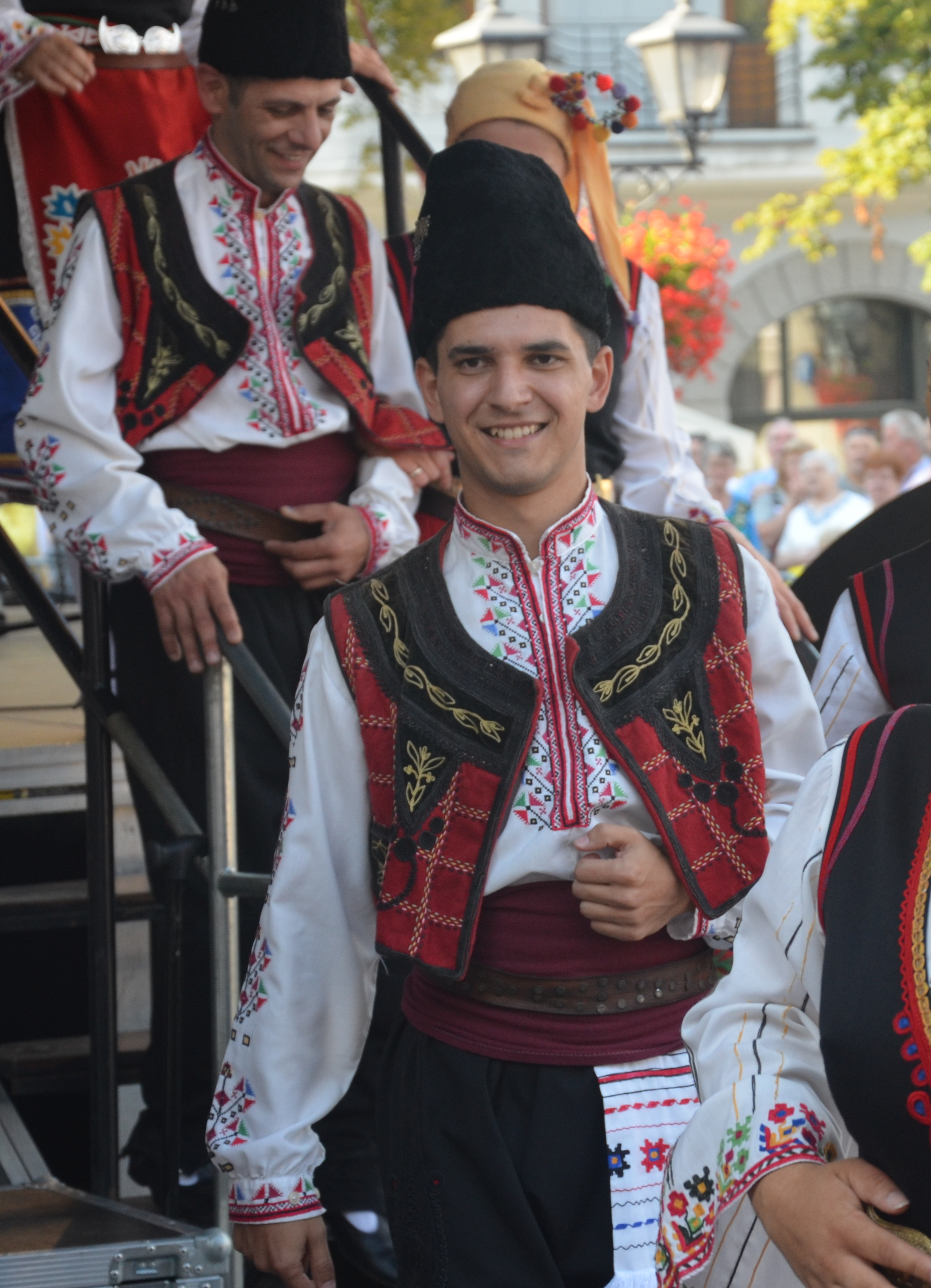 Odessos, Varna